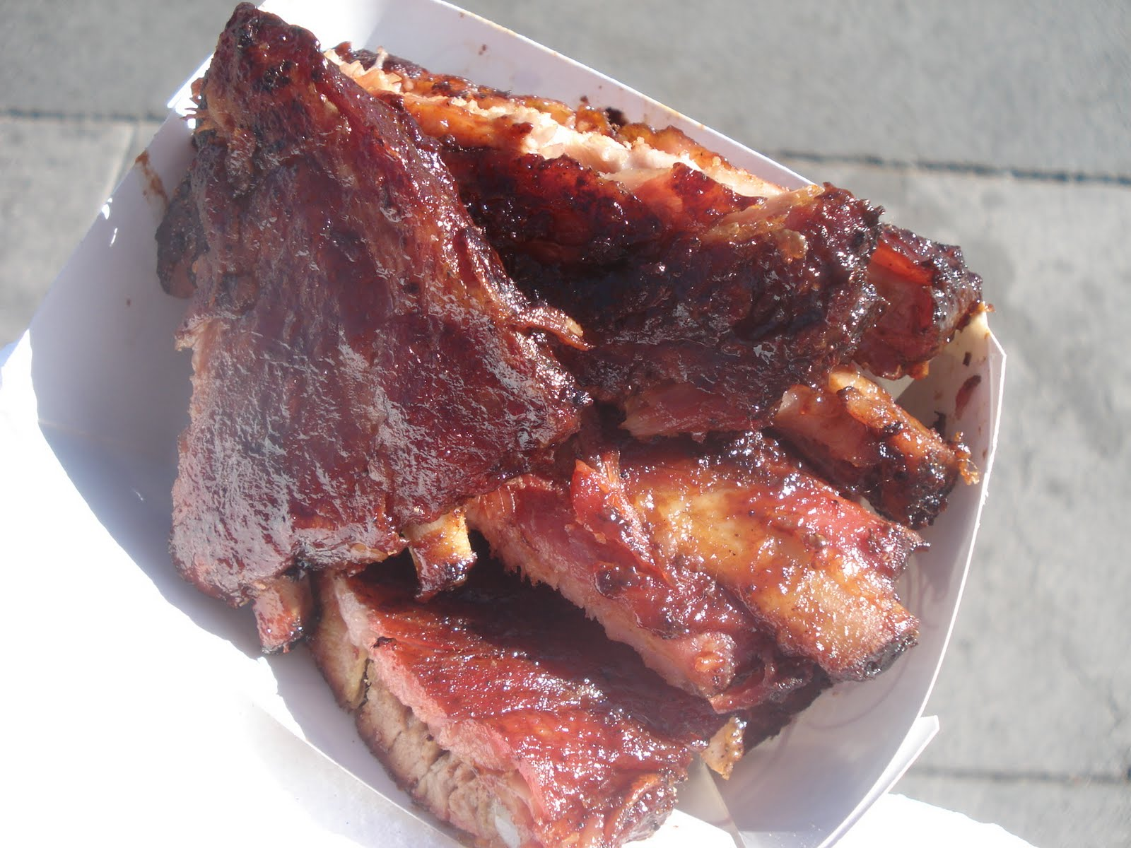 Ribs from the Checkered Pig from the Best in the West Nugget Rib Cook-Off in Sparks NV